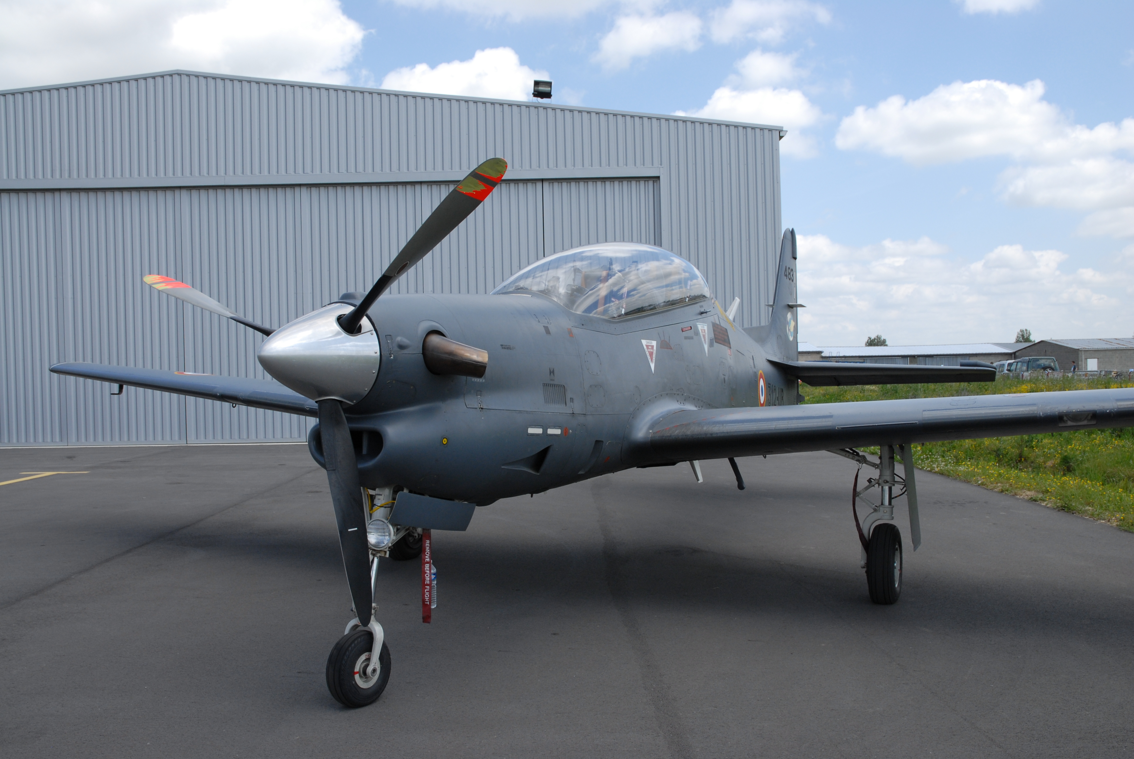 Embraer EMB 312 TucanoManufacturerEmbraer (Brazil)ModelEmbraer EMB 312 TucanoTypemilitary trainingCharacteristicstwo-seaterRegistration ID483 (coded 312-UB)OwnerFrench Air ForceBased inSalon-de-Provence Air Base